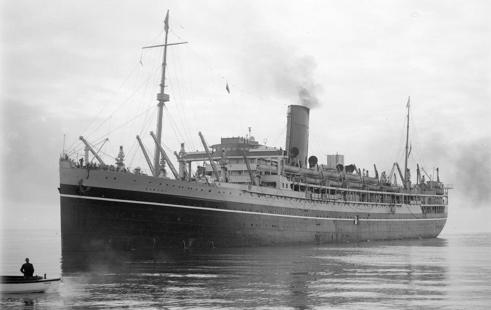 P&O SN Co passenger steamship Ranchi, built by Hawthorn, Leslie & Co at Hebburn, England in 1925 and scrapped at Newport, Monmouthshire in 1953. She served as an armed merchant cruiser 1939–43 and a troop ship 1943–47. She was built with two funnels. but when she was refitted in 1947 her after funnel was removed. After her refit she served as an emigrant ship.